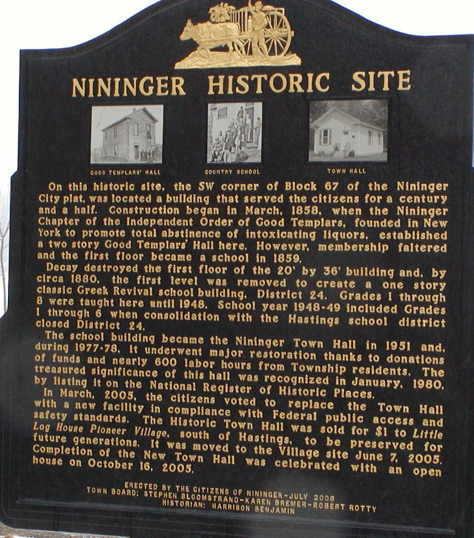 this is the plaque that stands where Good Templar Hall used to stand own work